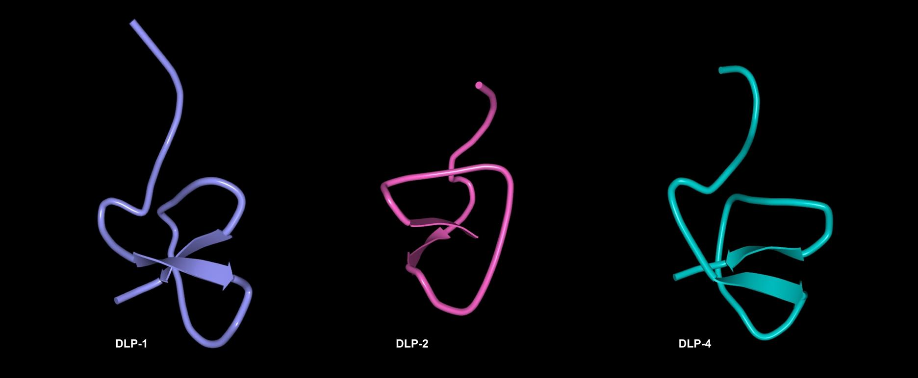 defensin-like peptides (DLP) 1, 2 and 4 from platypus venom. Image made using MBT Protein Workshop based on data from PDP entries: 1B8W, 1ZUE and 1ZUF